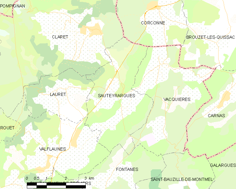 Map commune FR insee code 34297.png - Sauteyrargues